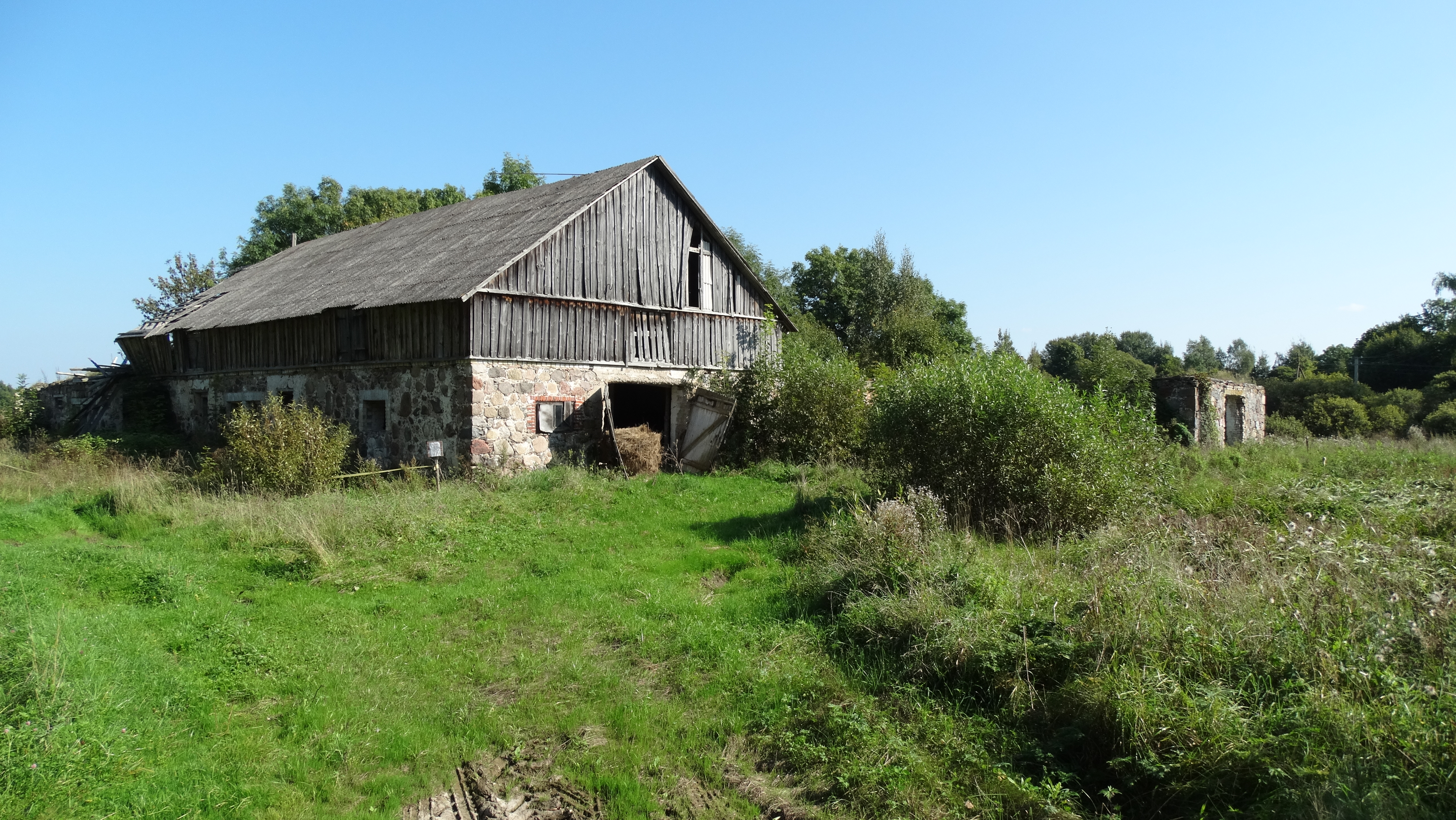 Former manor, Kamariškiai, Zarasai District, Lithuania